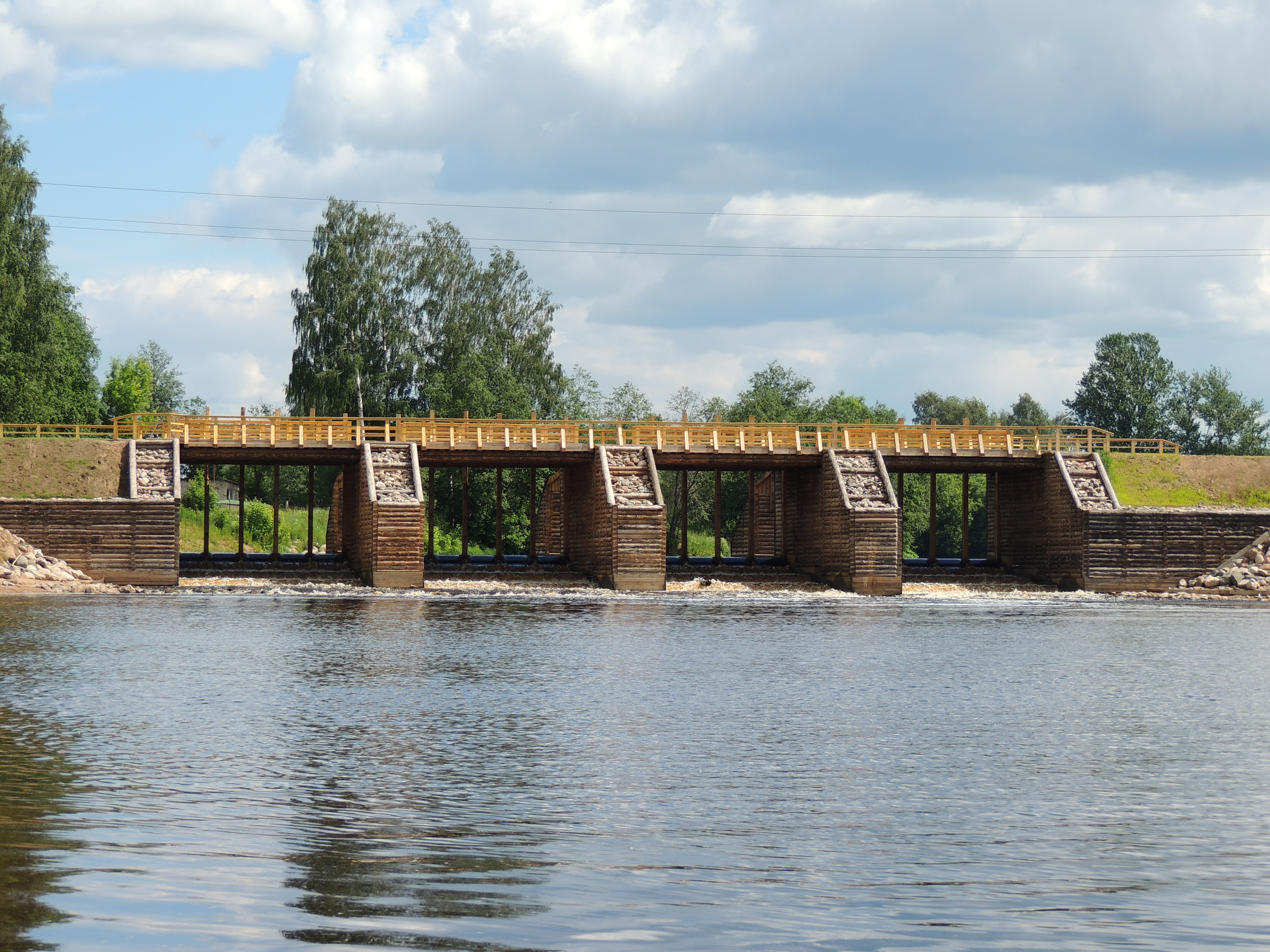 Tikhvin gate